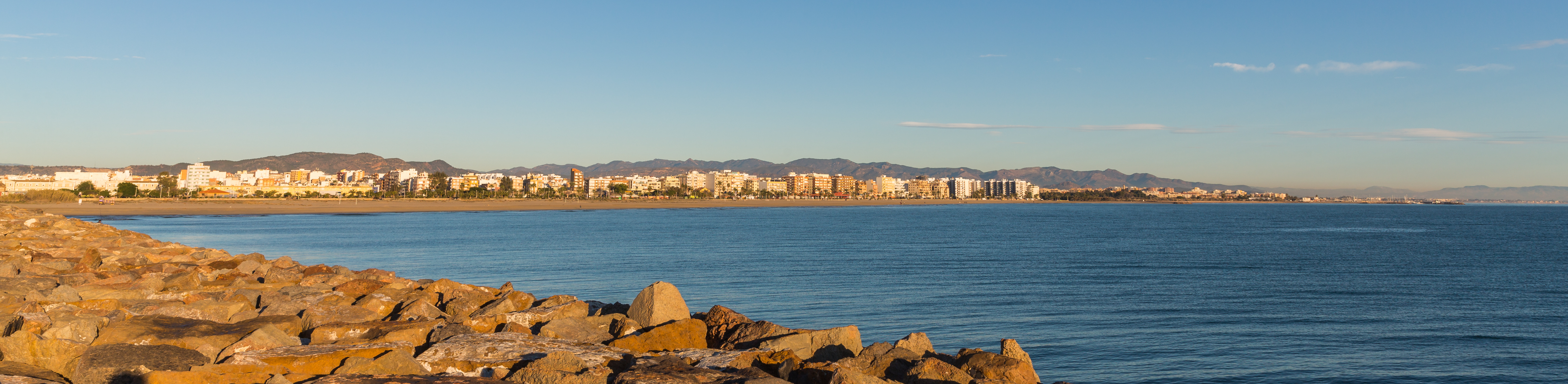 Beach of Port of Sagunto, España